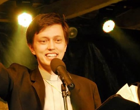 Kristjan Luhamets